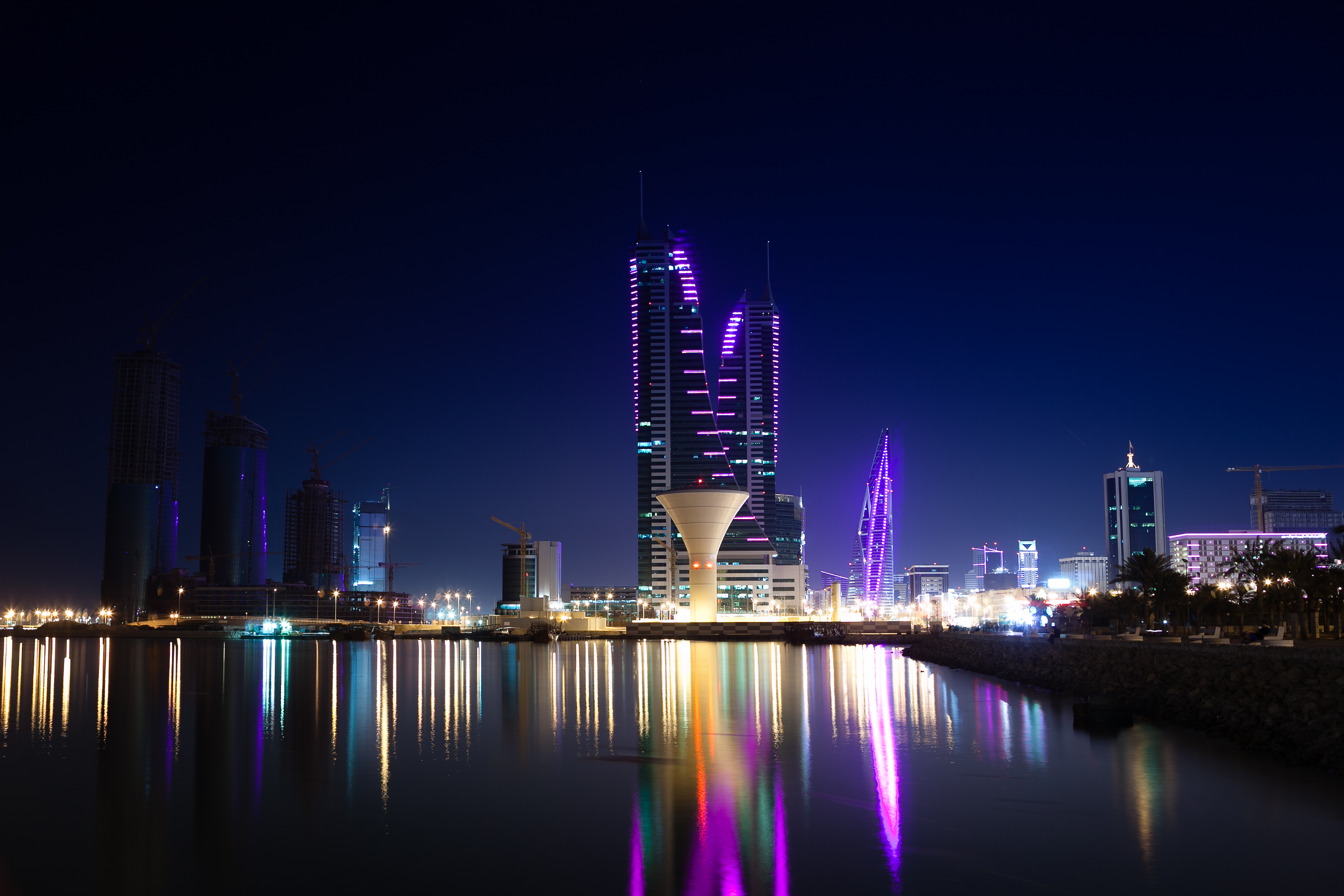 A long-exposure photograph of the Bahrain Financial Harbour complex in Manama, Bahrain. Photograph taken on 24 October 2013.